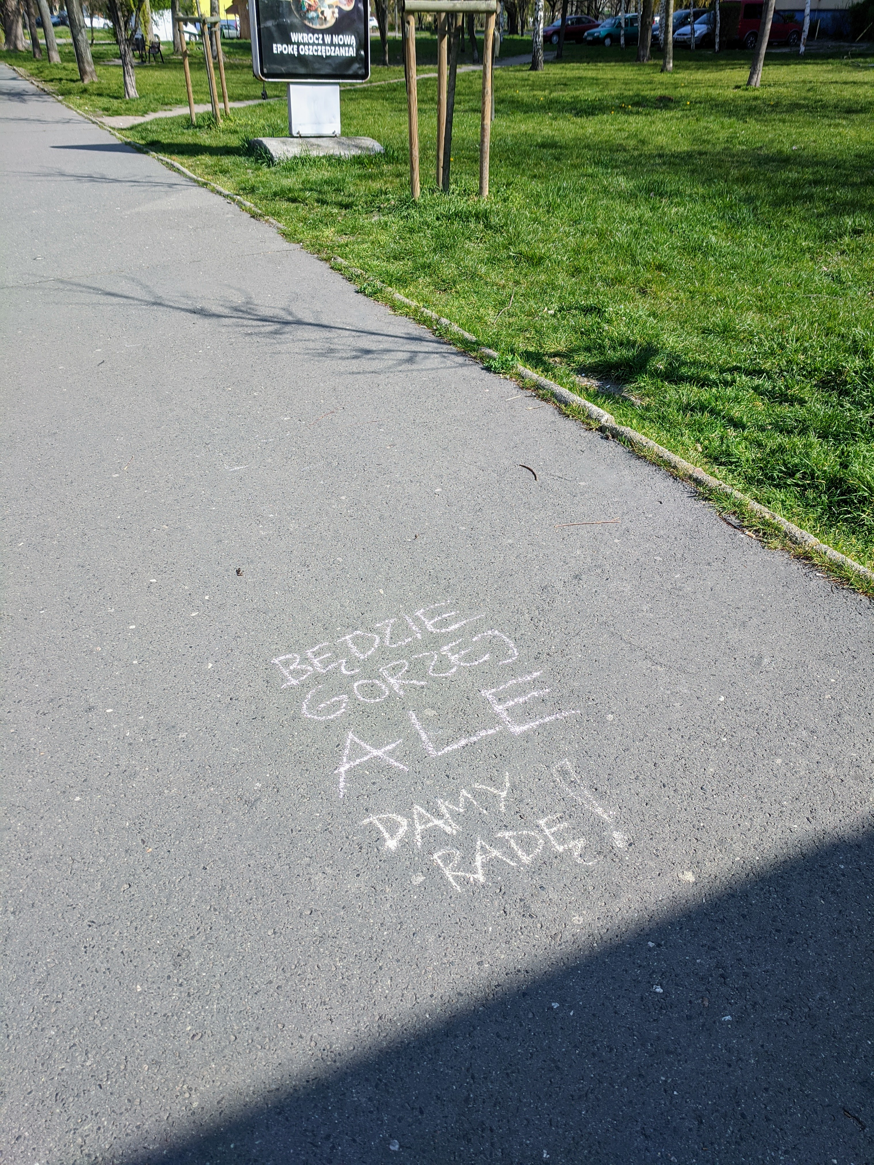 The inscription on the sidewalk in Wrocław (Poland) during the COVID-19 epidemic: "It will be worse, but we'll manage!"